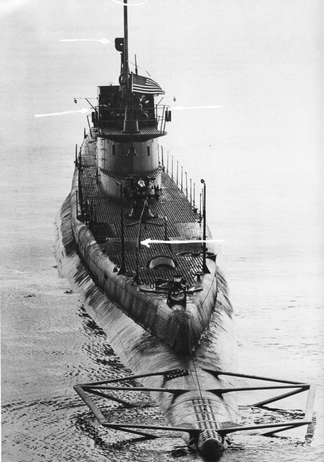 Photographed off Portsmouth on 19 May 1943, Marlin (SS-205), shows war alterations, most importantly the 20-mm gun platform abaft her bridge, the wire loop for underwater HF reception, & an SD air warning radar. Another 20-mm gun was mounted forward of her bridge.